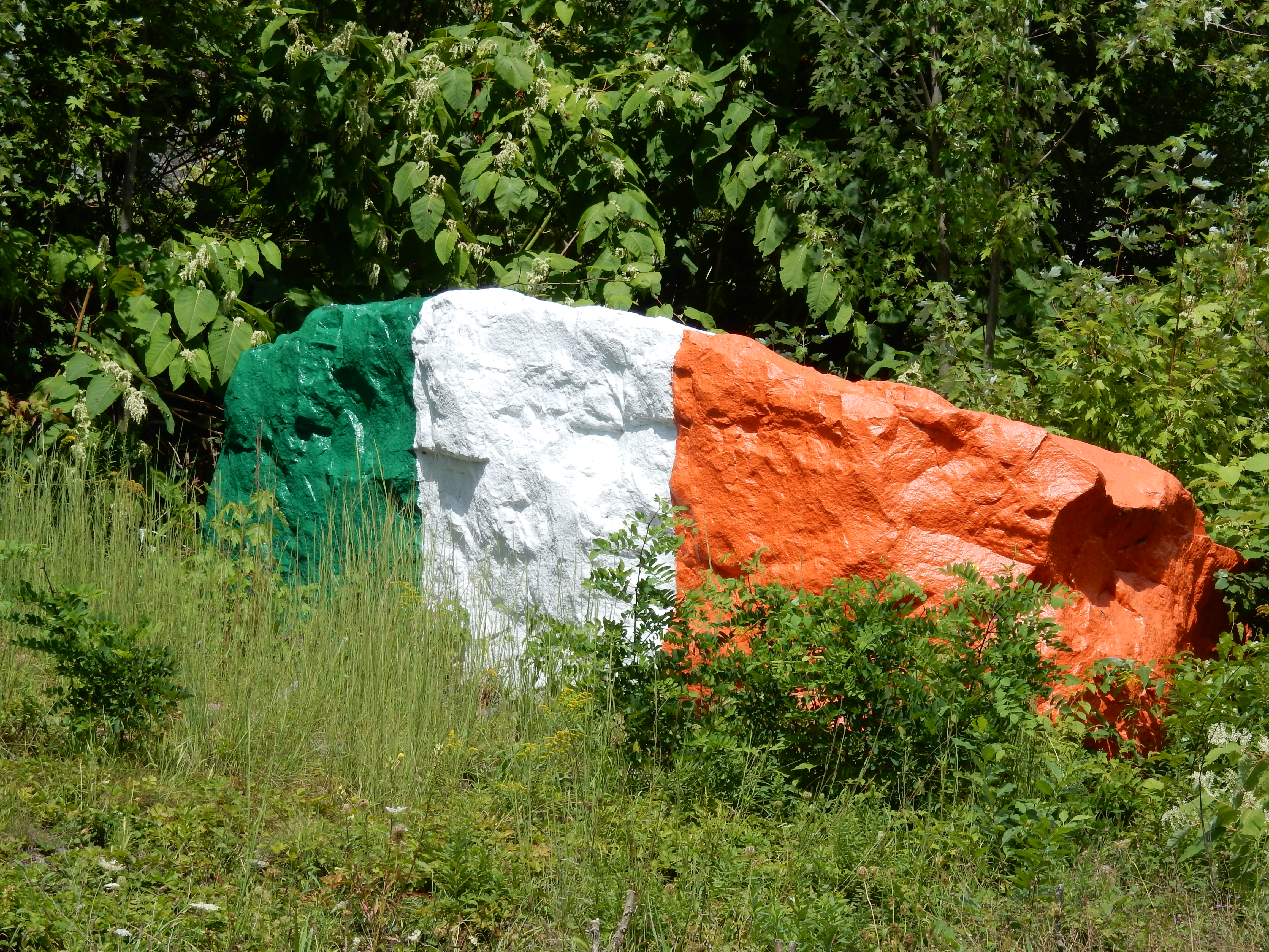 Stone painted in national Irish colors. Valley Rd. near Heckscherville, Cass Township, Schuylkill County, Pennsylvania.